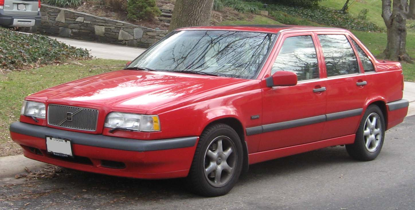 Volvo 850 photographed in Kensington, Maryland, USA.